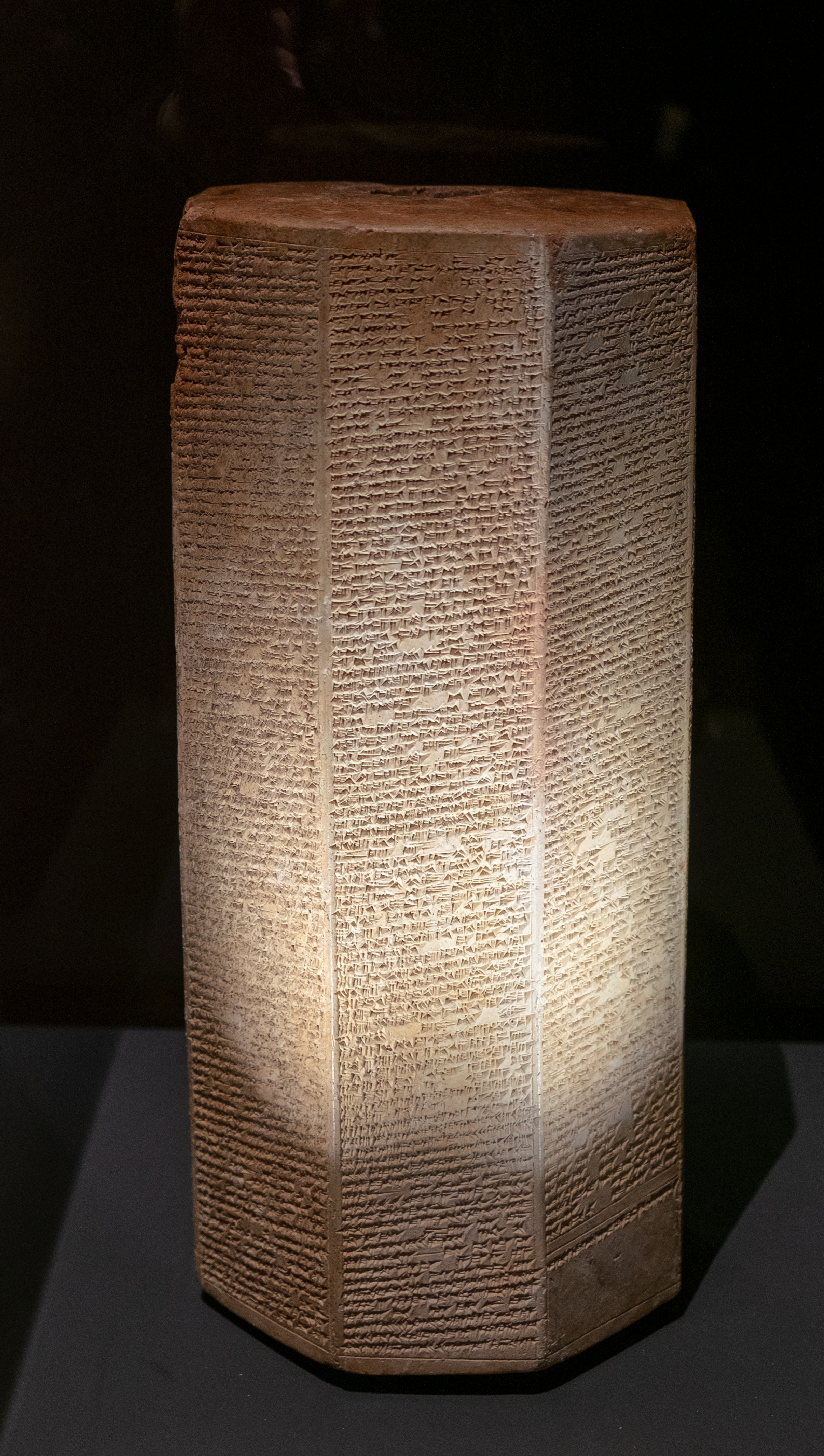 2018 Ashurbanipal cylinder British Museum, London